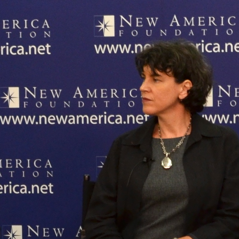 Naomi Cahn, Marth Ertman, Liza Mundy and Johnathan Rauch in 2010